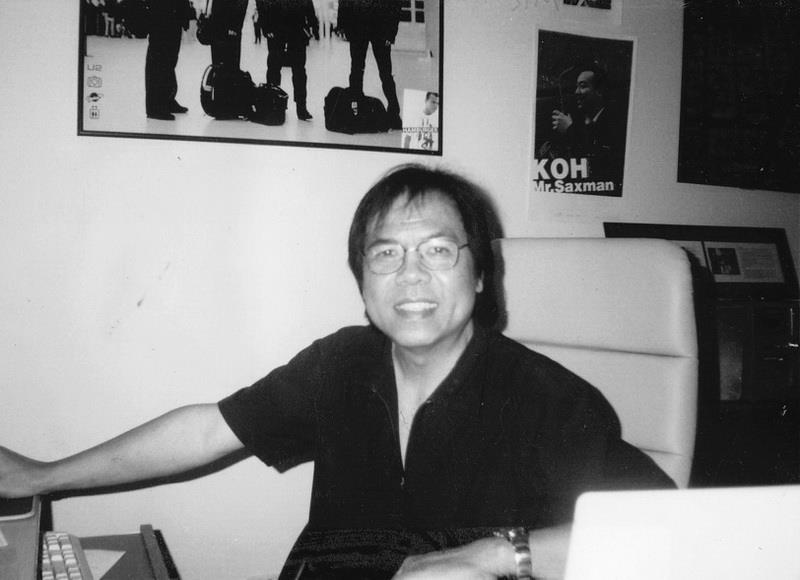 สมชัย ขำเลิศกุล